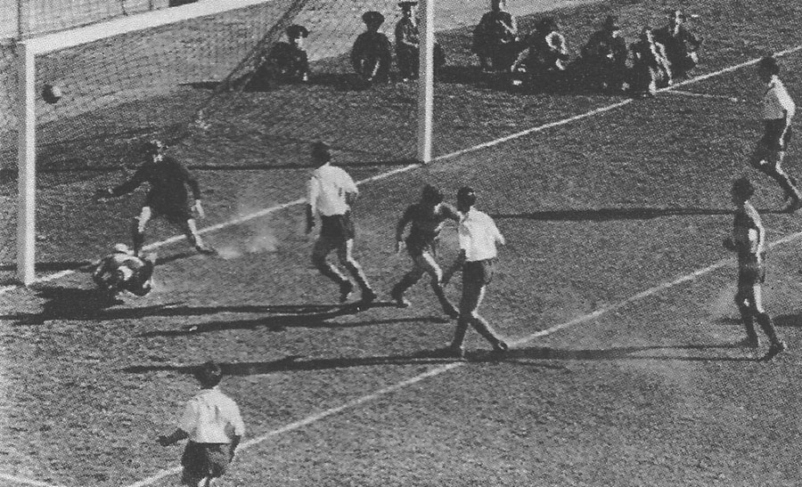 The famous "palomita" goal scored by Severino Varela playing for Boca Juniors against River Plate.